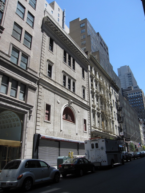 45 Park Place in Manhattan, the former Burlington Coat Factory.